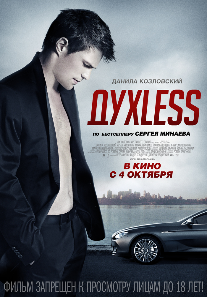 Soulless movie official poster